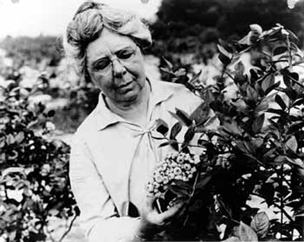 Elizabeth Coleman White. A pioneer, she was the first to cultivate the wild blueberry. For her contributions to the agriculture industry, White was the first female to receive a citation from the New Jersey Department of Agriculture. Photo courtesy of New Jersey Women’s History, Rutgers University